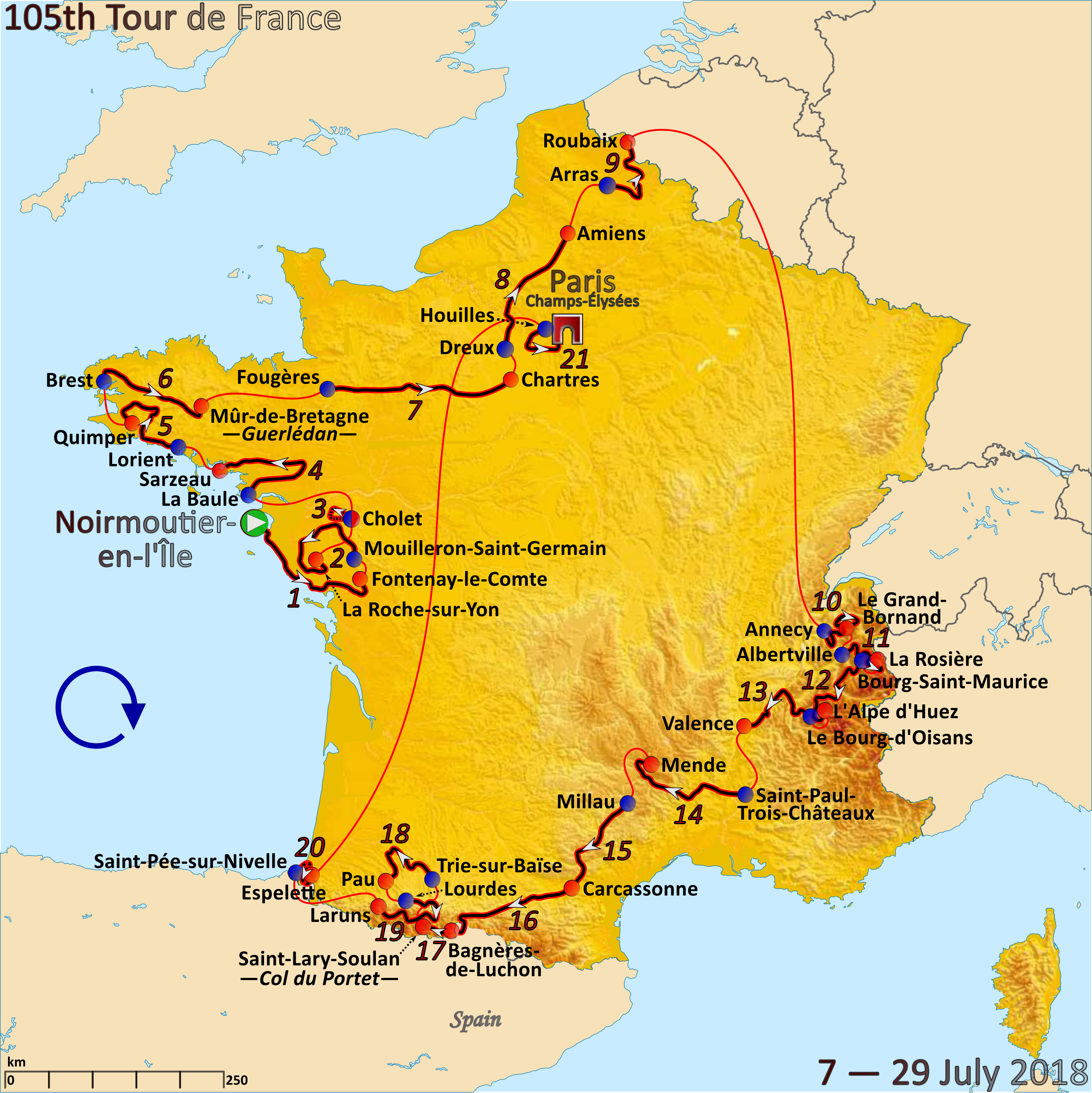 Map of the 2018 Tour de France created in Inkscape